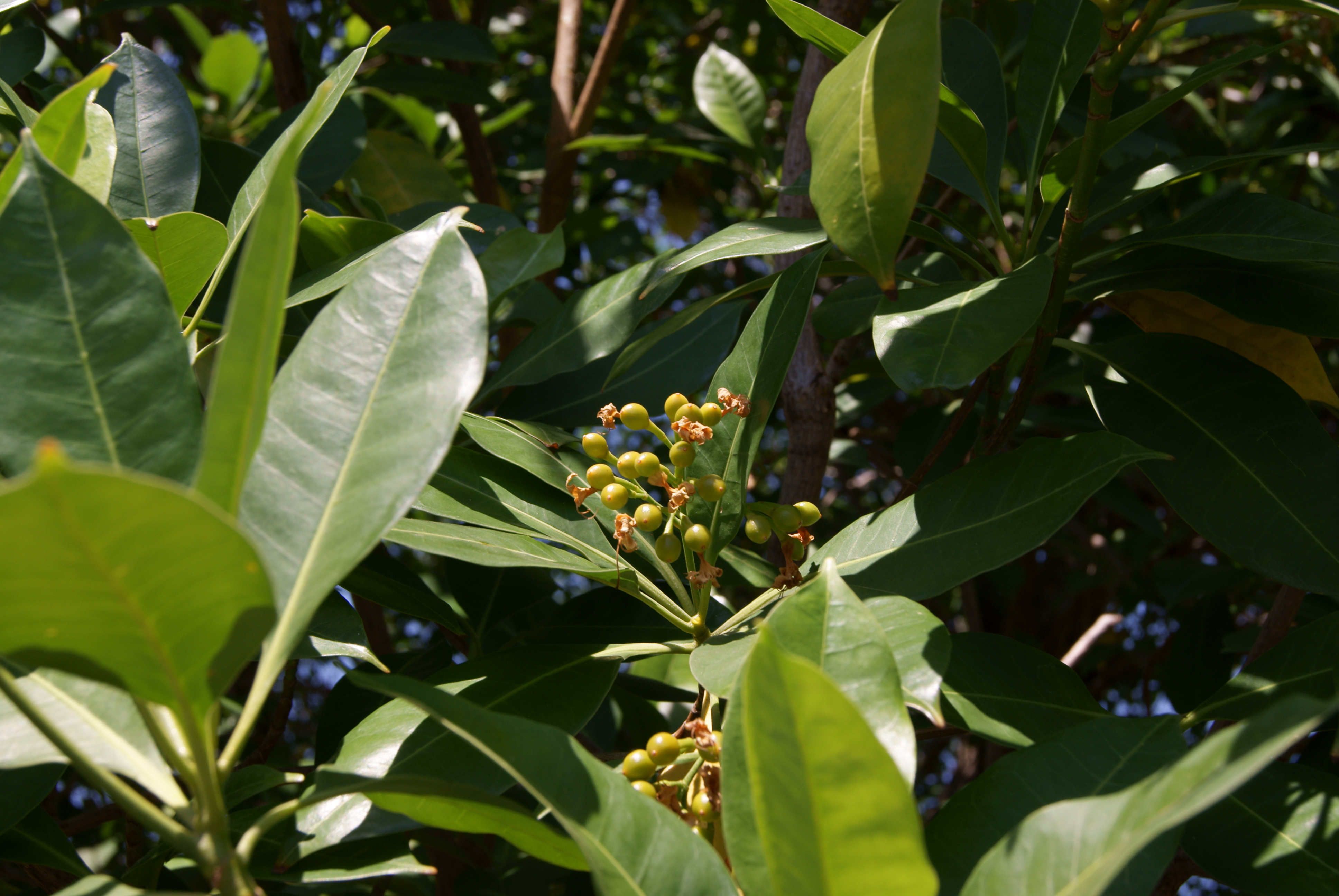 Ironwood (Mesua ferrea), Karimun Jawa Island